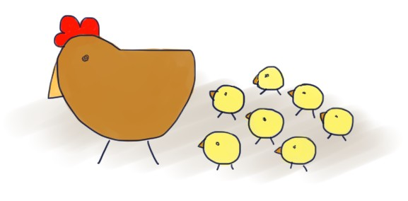 Hen and 7 chicks